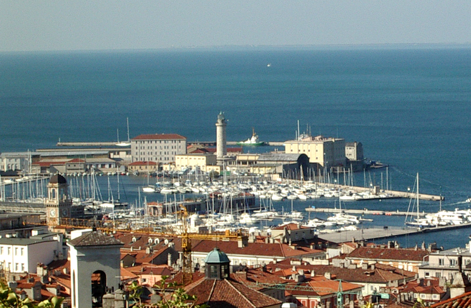 Trieste from San Giusto hill